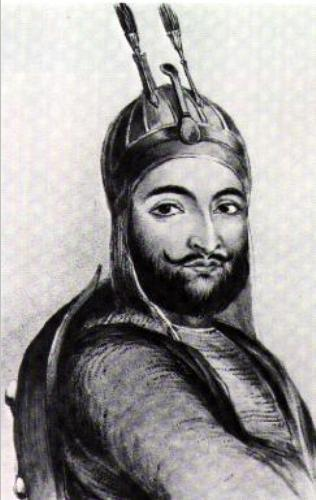 Prince Akbar Khan, victor of the 1837 Battle of Jamrud and a general officer in the First Anglo-Afghan War.